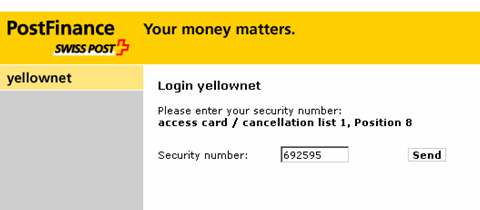 Tan List for OTP